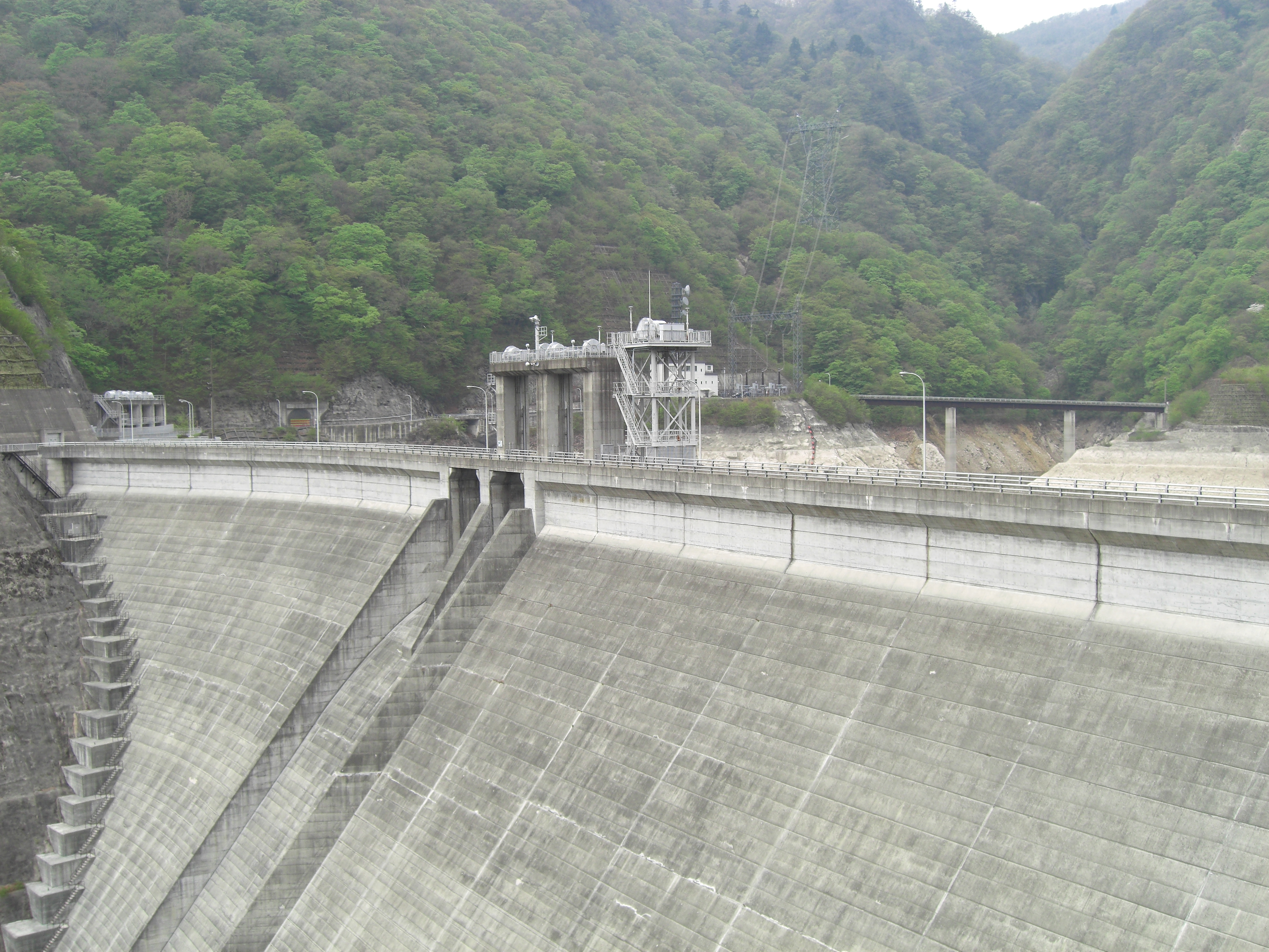 Sabigawa dam